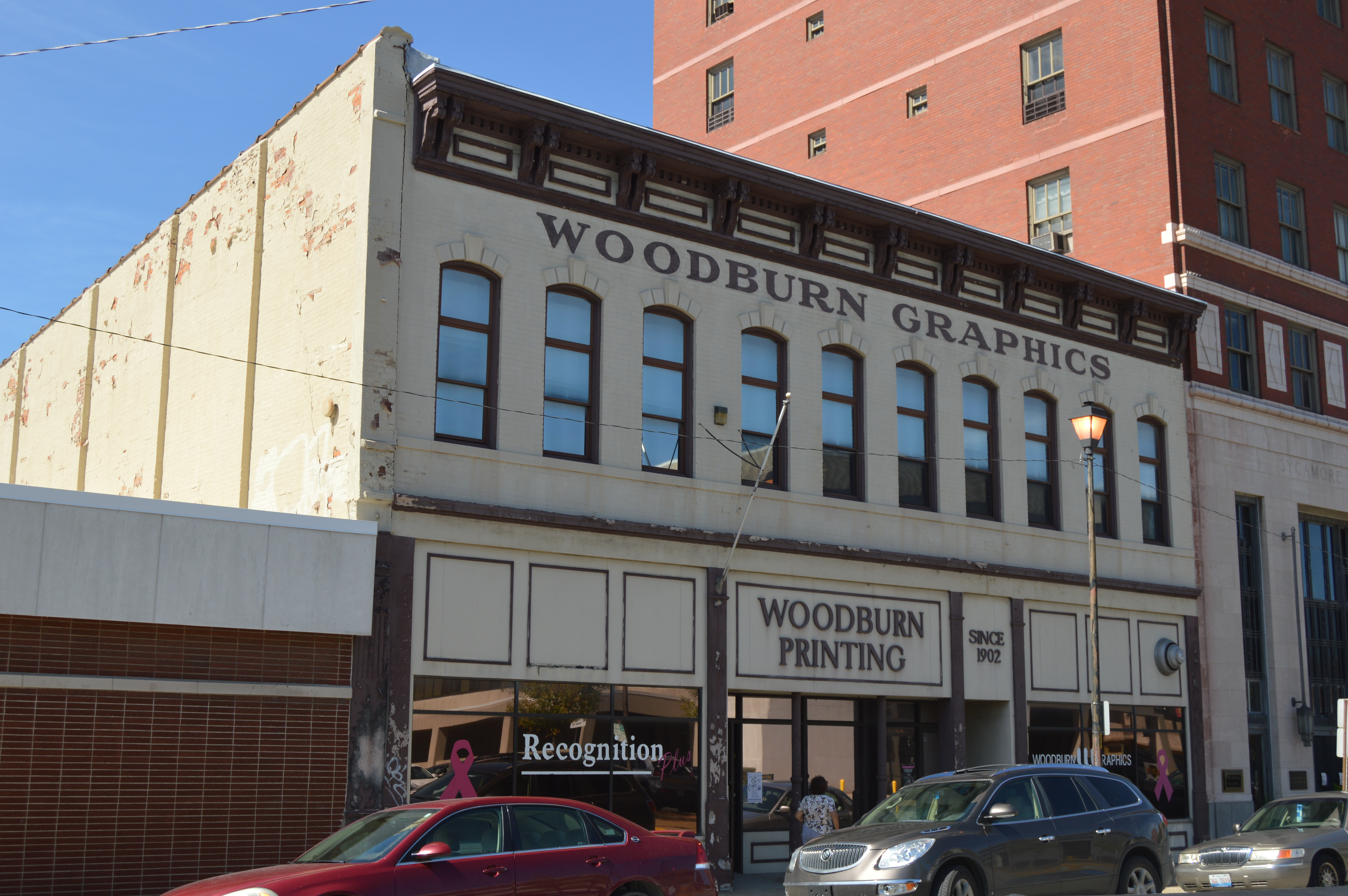 Front and southern side of the Building at 23-27 S. Sixth Street in Terre Haute, Indiana, United States. Built in 1882, it is listed on the National Register of Historic Places.